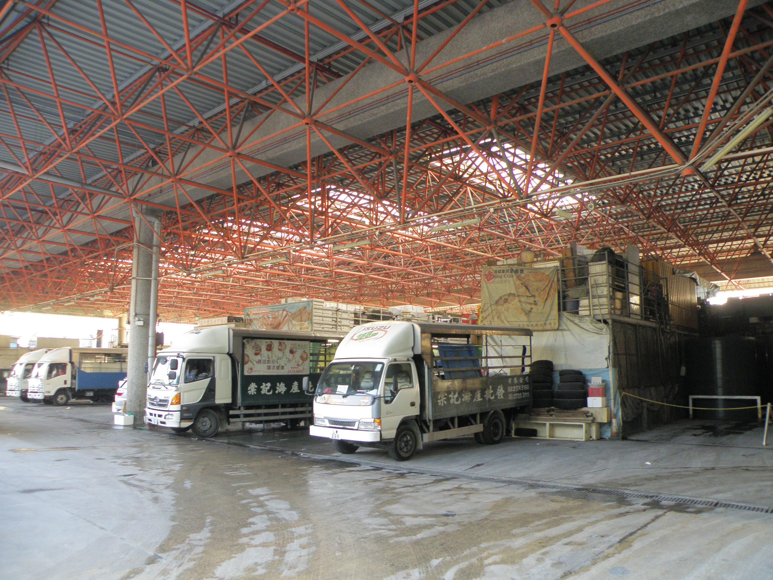 Kwun Tong Wholesale Fish Market in Yau Tong, Hong Kong.